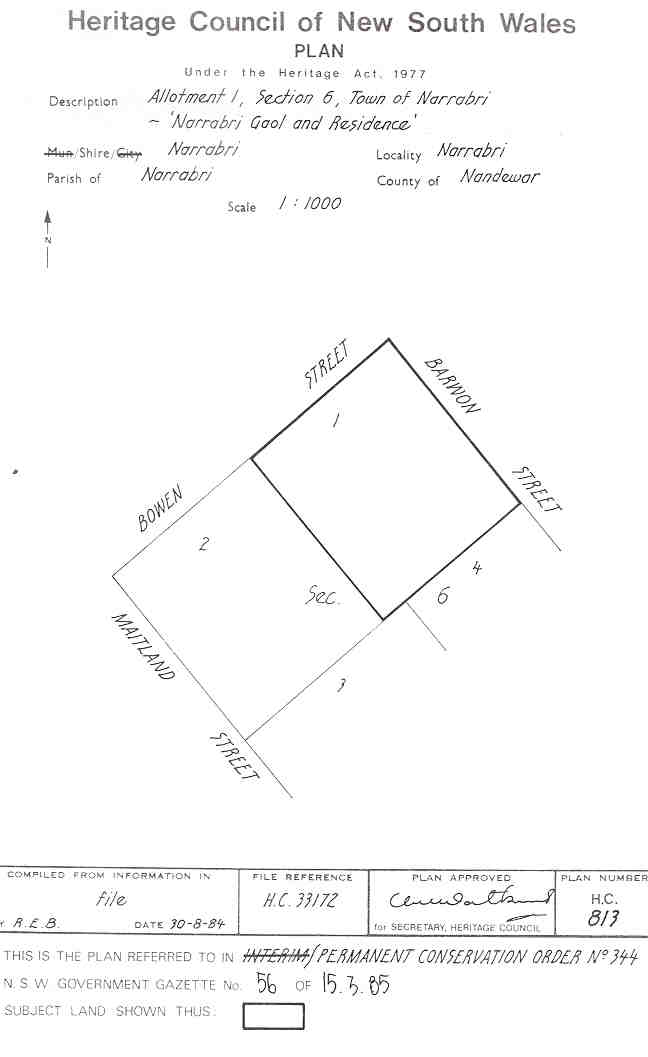 Narrabri Gaol and Residence: PCO Plan Number 344